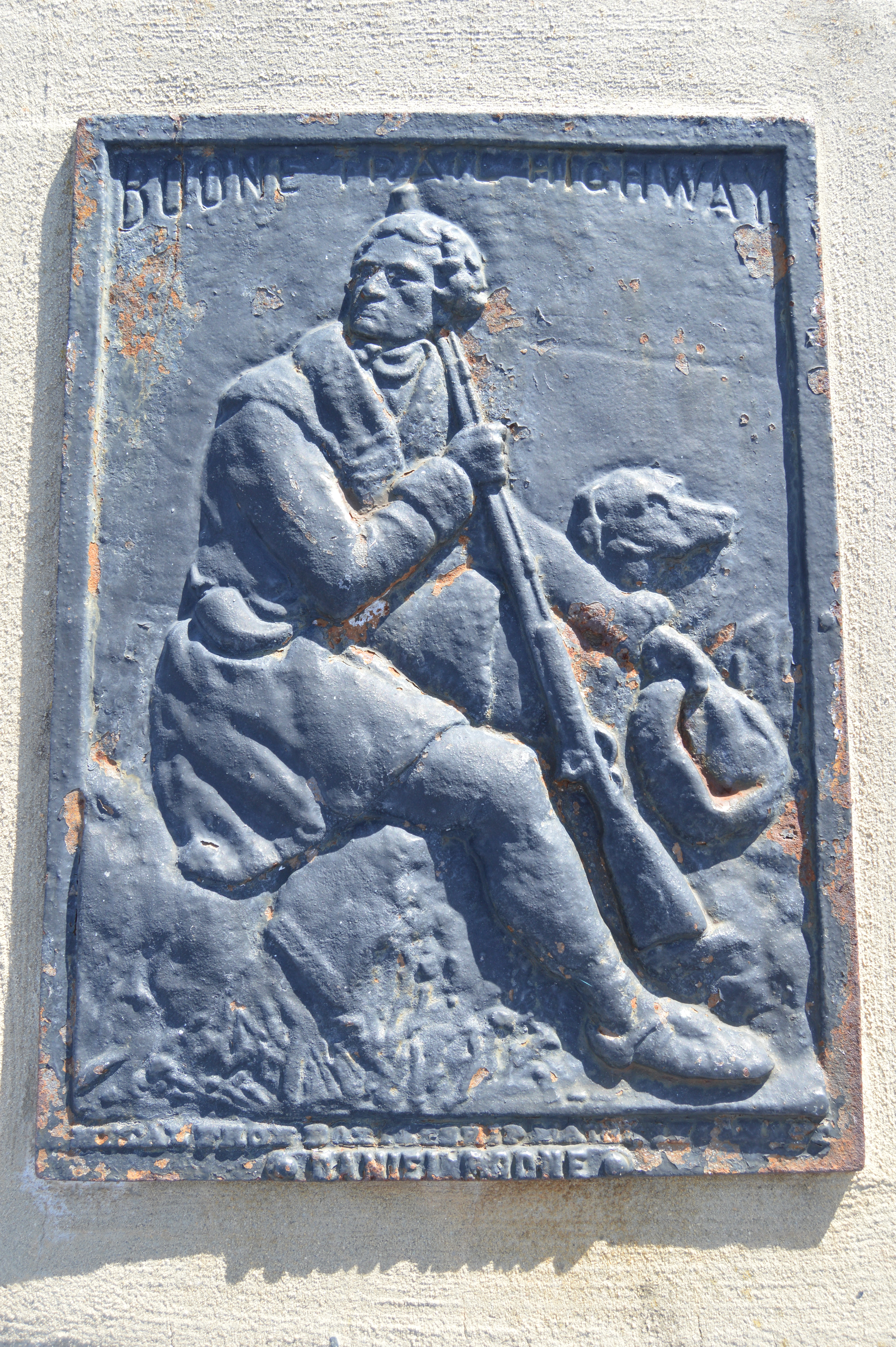 A surviving Boone Trail marker, located on Charlotte Avenue by the railroad crossing in downtown Sanford, North Carolina, United States. According to a nearby marker, this plaque was placed in 1927 and includes metal from USS Maine.